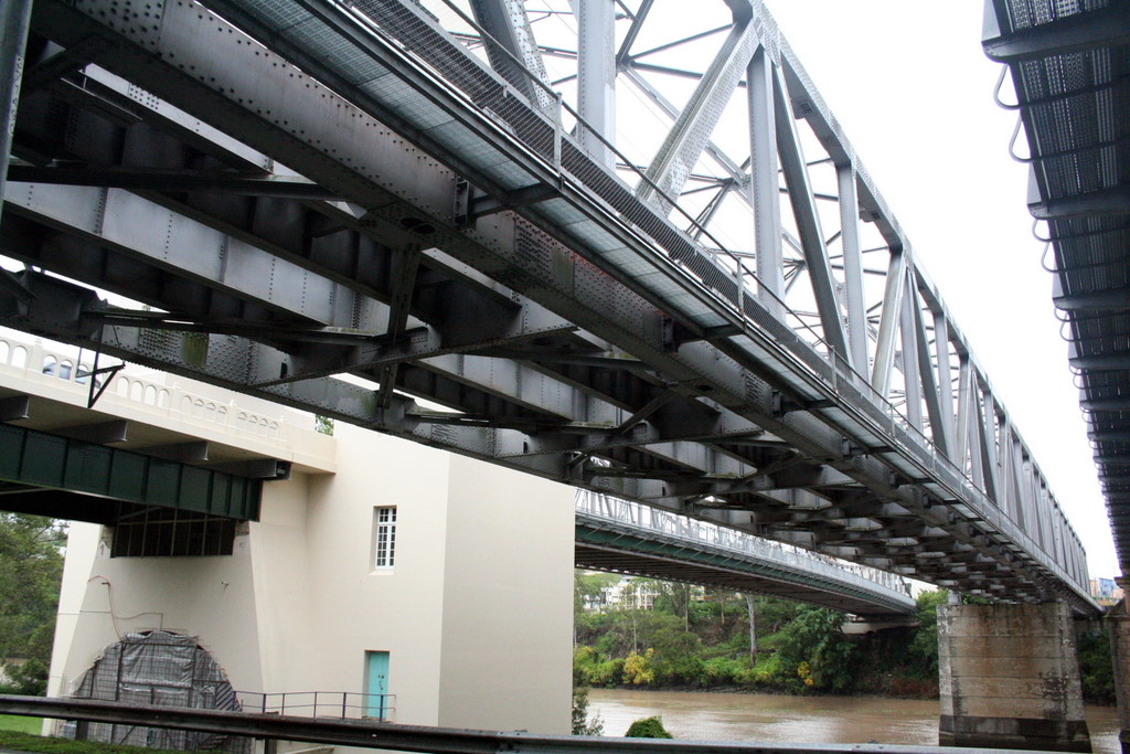 Photo taken by Paul Guard